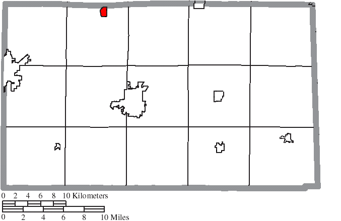 Map of the municipal and township boundaries of Seneca County, Ohio, United States, as of the 2000 census, with the location of the village of Bettsville highlighted. Township borders are shown only in unincorporated areas in order to differentiate incorporated and unincorporated areas more clearly.